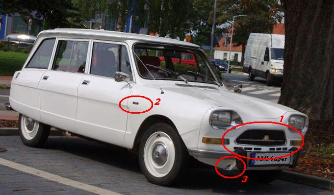 modification of a Commons's picture. Diff AMi8/AMi Super